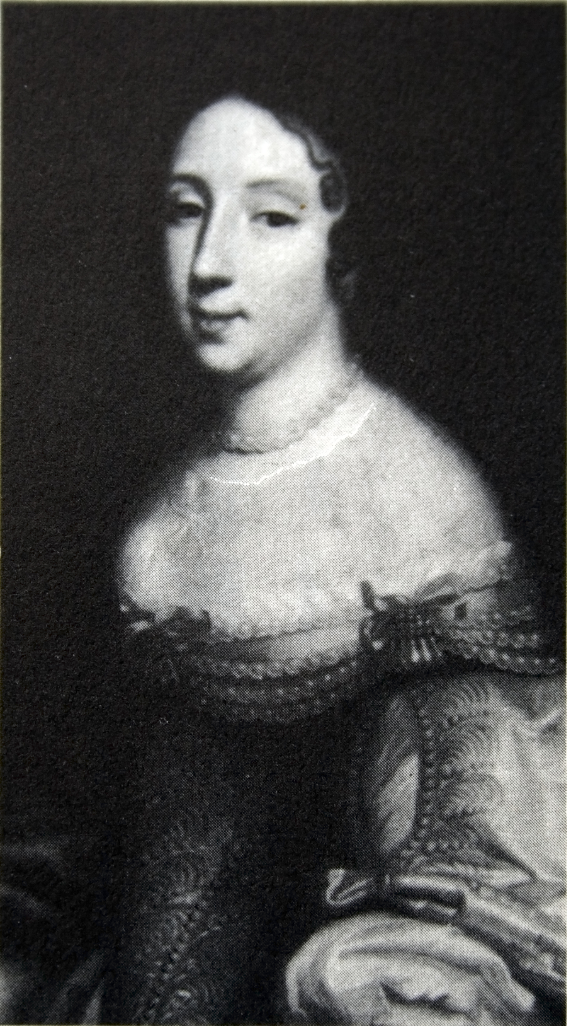 Anne of Austria (1601-1666), regent for her son, Louis XIV